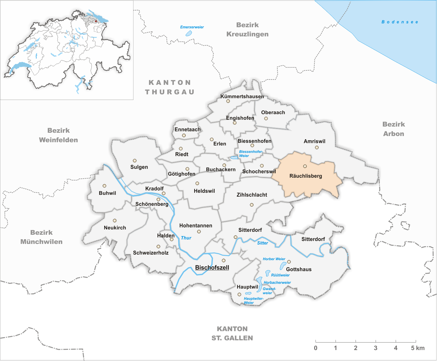 Municipality Räuchlisberg